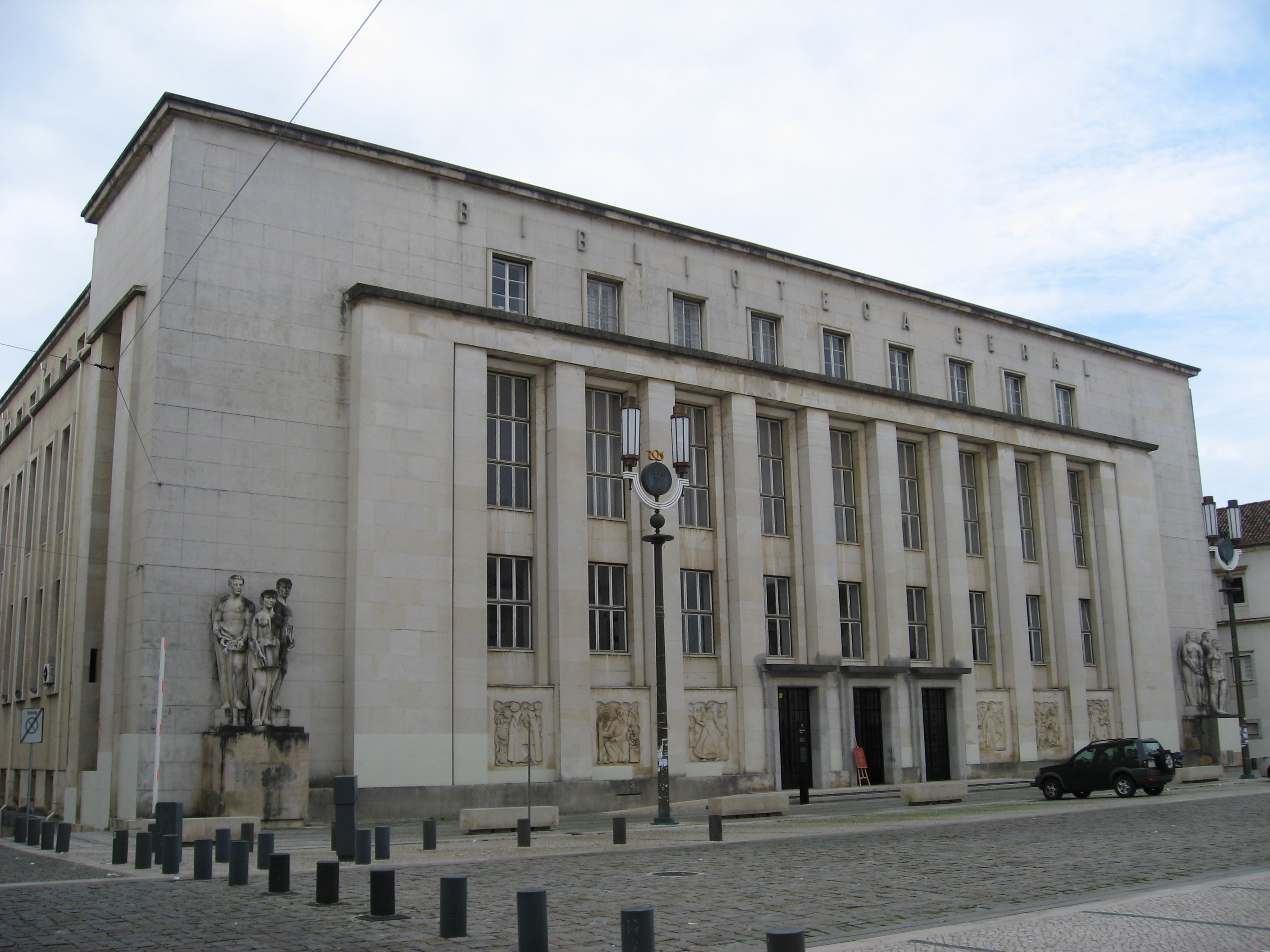 University of Coimbra General Library, Coimbra, Portugal. Photo taken by Alan Ford 2006-10-15.